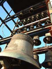 Grafenberger Carillon